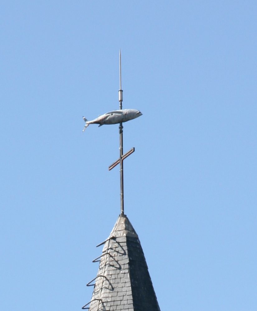 The church Saint Tudy in Le Bourg on Groix Island (Brittany, France): A thuna shows the direction of the wind.